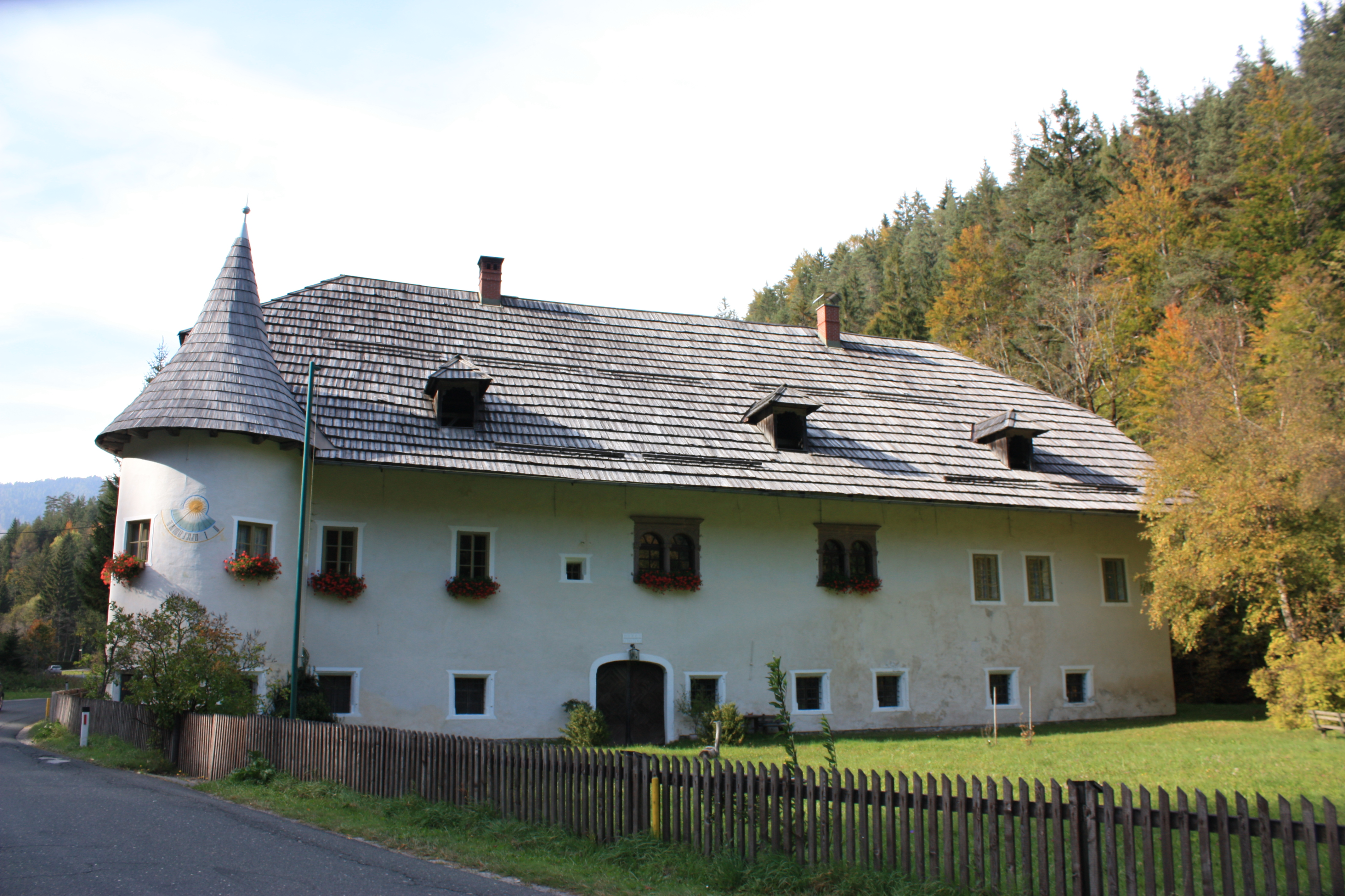 Kreuzen Castle Locality: Kreuzen Community:Paternion